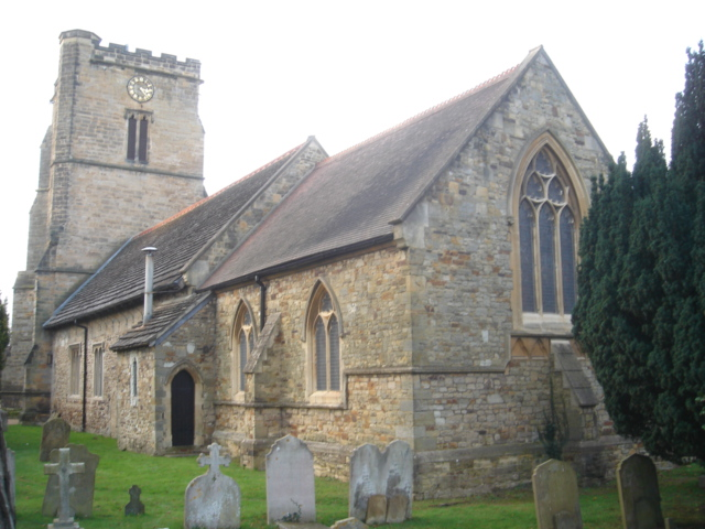 St John the Baptist's Church, off High Street, Crawley, West Sussex, England. The Anglican parish church of Crawley. Listed at Grade II* by English Heritage (ref #363346)